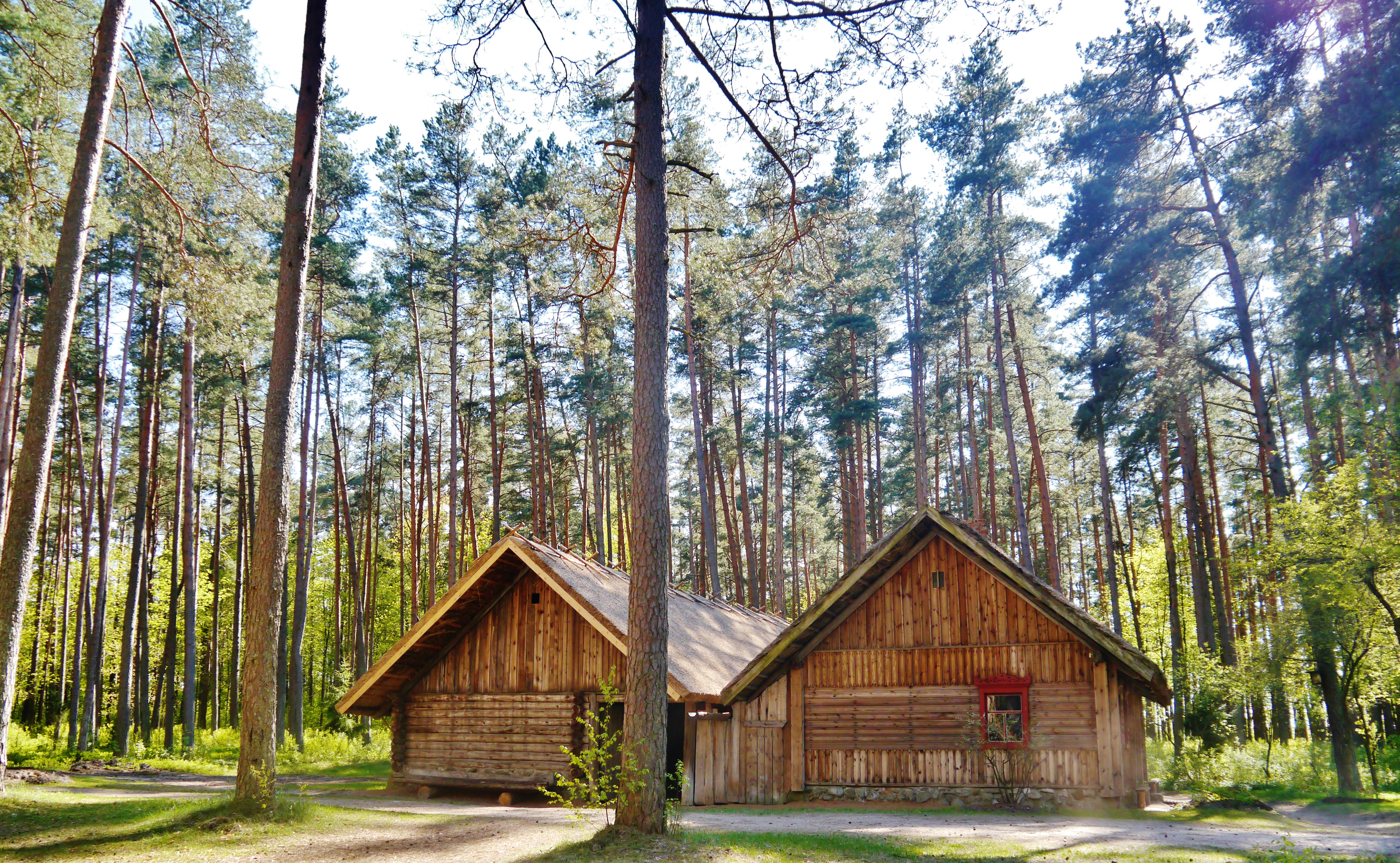 Houses of the Region of Latgale/Latgalia, Ethnographic Museum, Bergi, Latvia